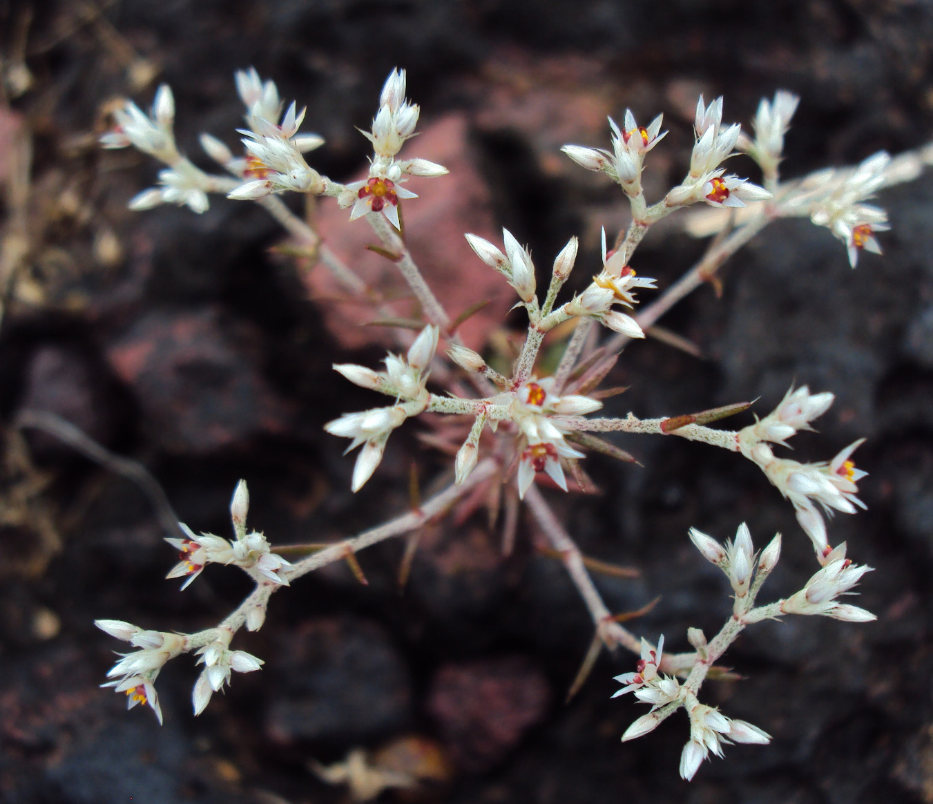 Polycarpaea corymbosa